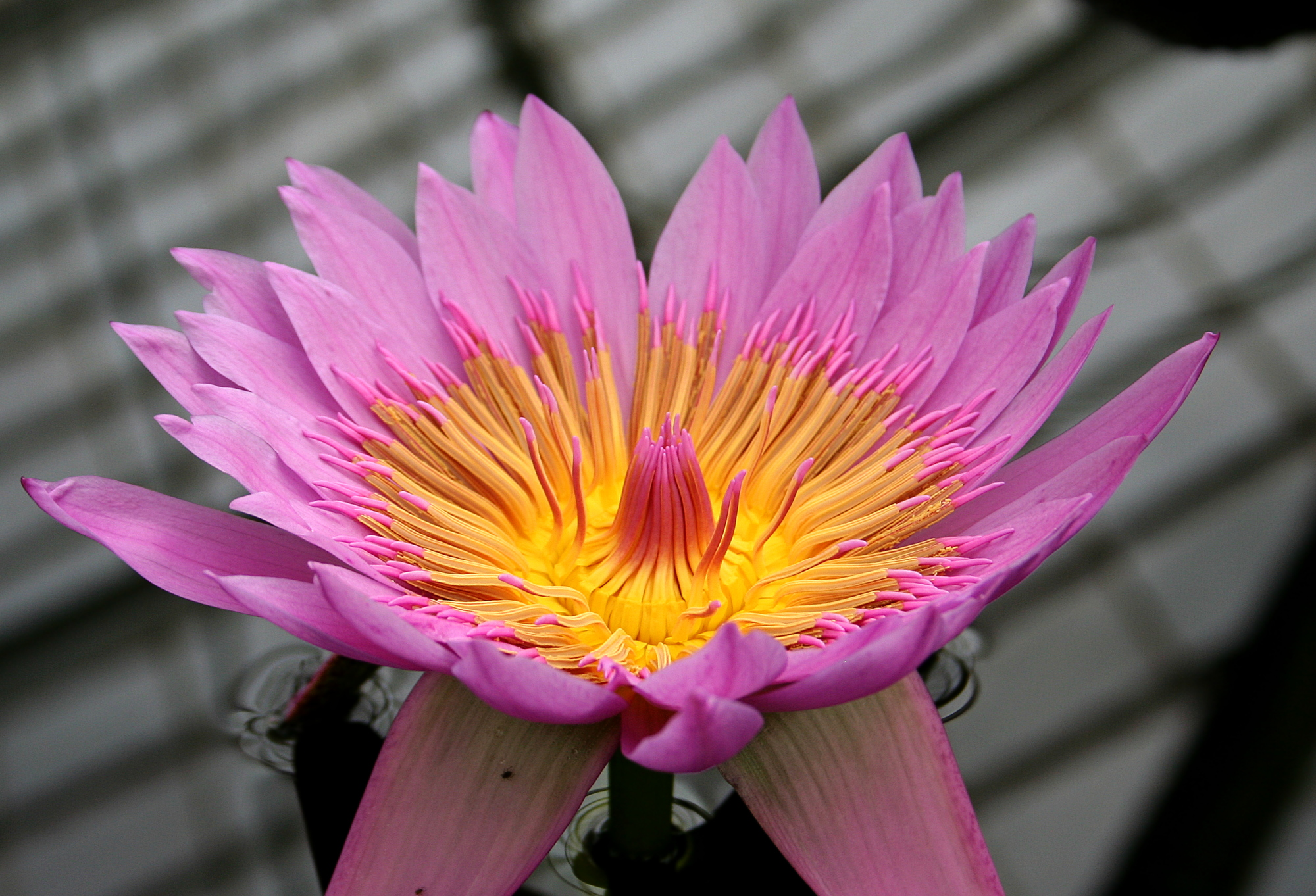 Nymphaea spp. from the San Francisco Conservatory of Flowers.